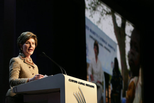 Mrs. Bush announces a $60 million public-private partnership between the U.S. Government and the Case Foundation at President Bill Clinton's Annual Global Initiative Conference in New York, NY, Wednesday, September 20, 2006. The partnership will work to provide clean water to up to 10 million people in sub-Sahara Africa by 2010, and support the provision and installation of PlayPump water systems in approximately 650 schools, health centers and HIV affected communities. PlayPump water system is powered by children's play consisting of a merry-go-round attached to a water pump with a storage tank. White House photo by Shealah Craighead